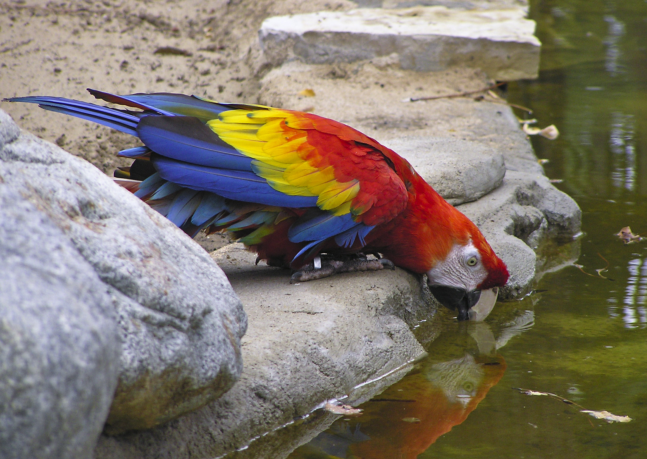 A Scarlet Macaw at La Palmyre Zoo, Les Mathes, France.